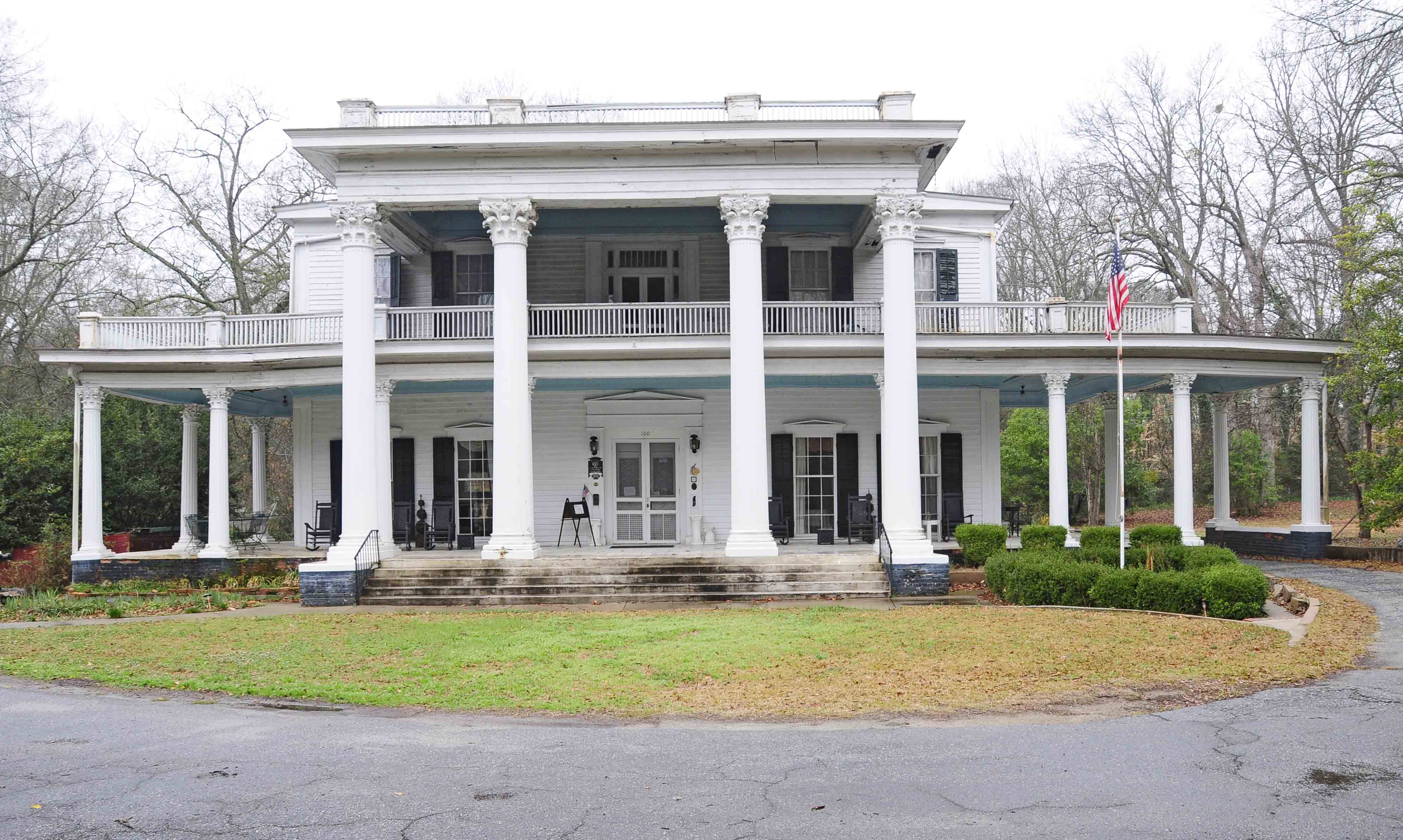 Merridun